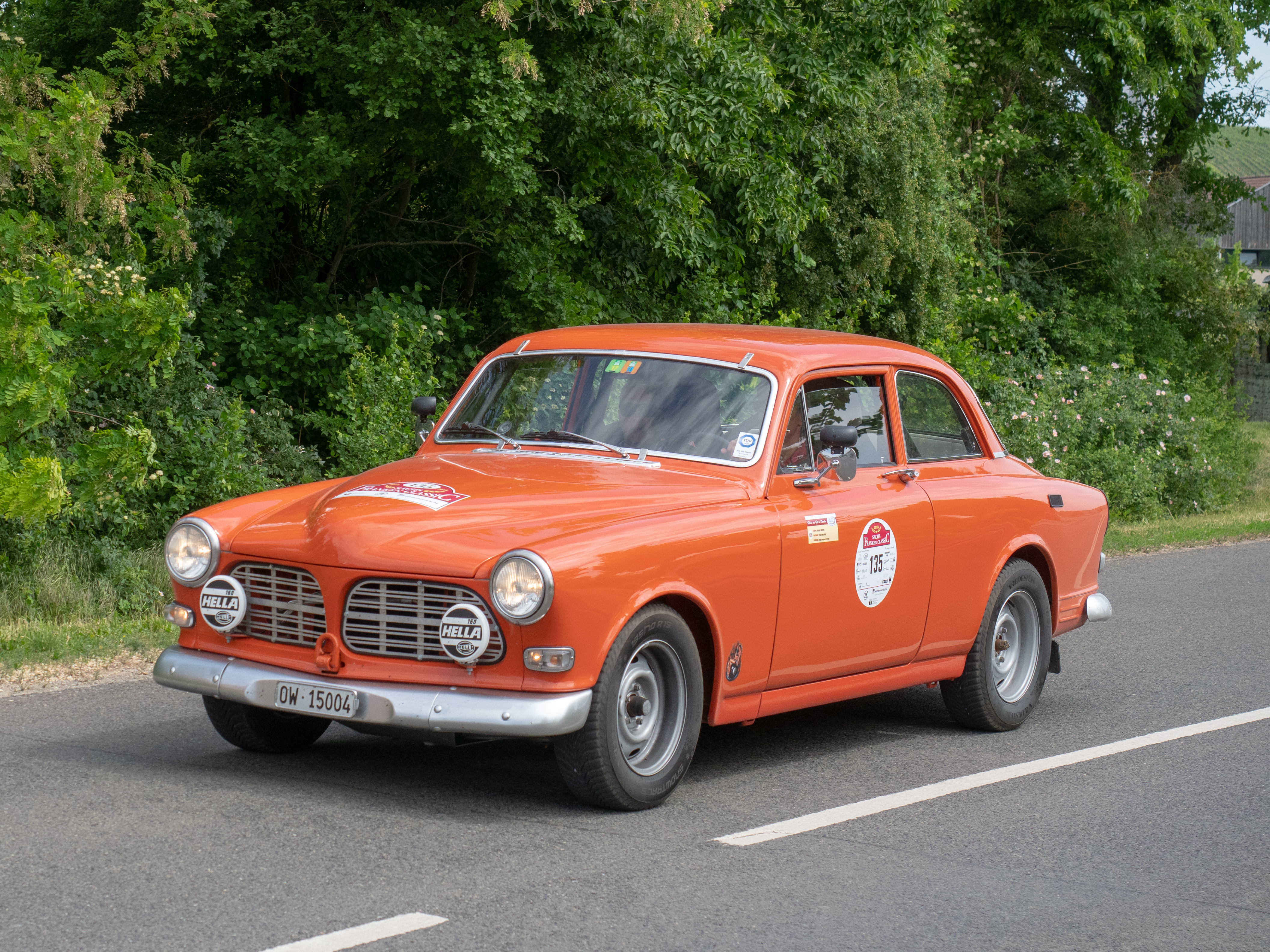 Volvo P121 Amazon at the Sachs Franken Classic Rally 2018